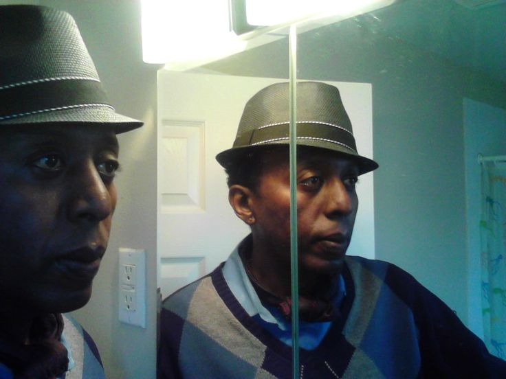 selfportrait